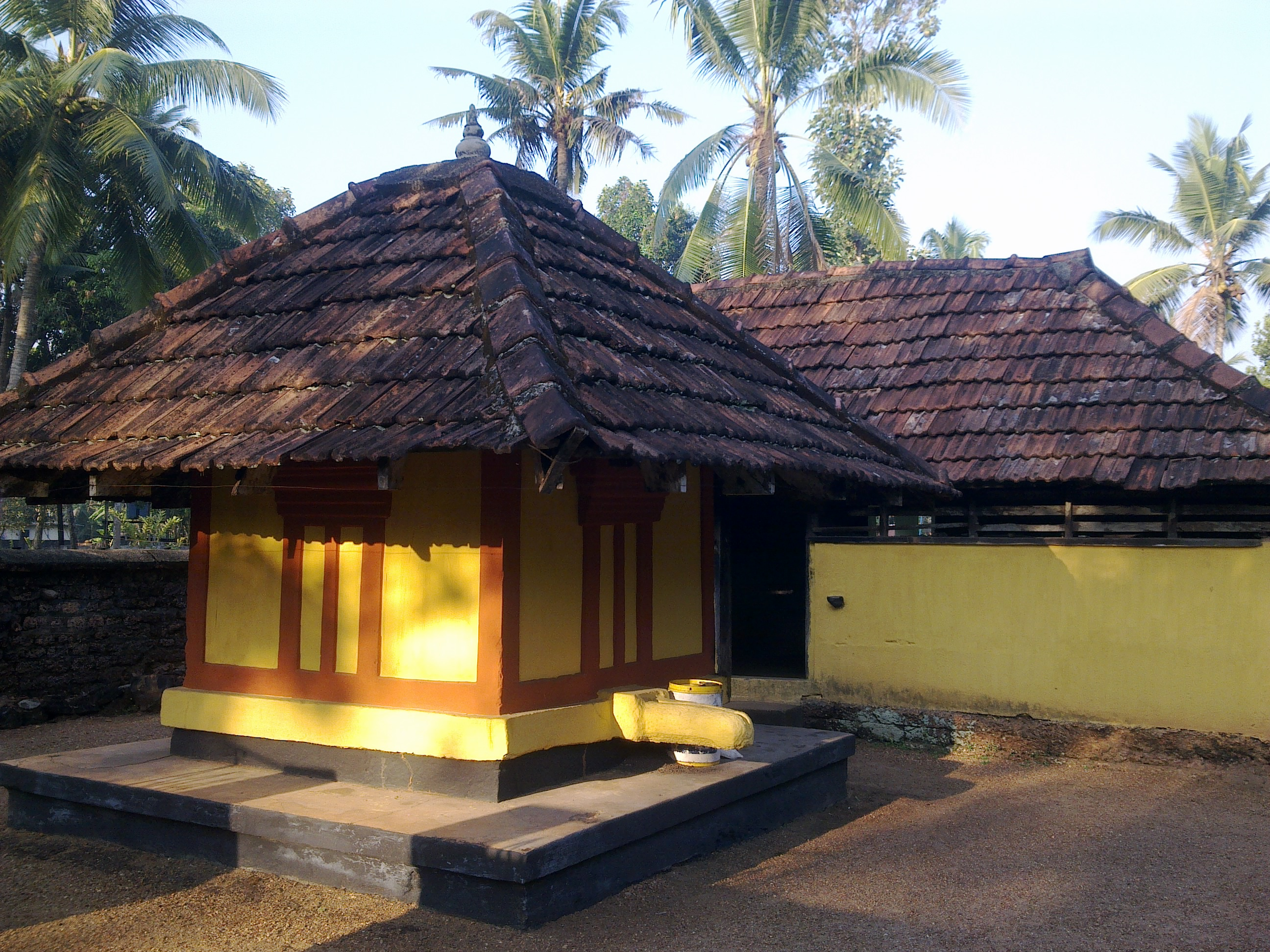 Kannamperur Devi Temple